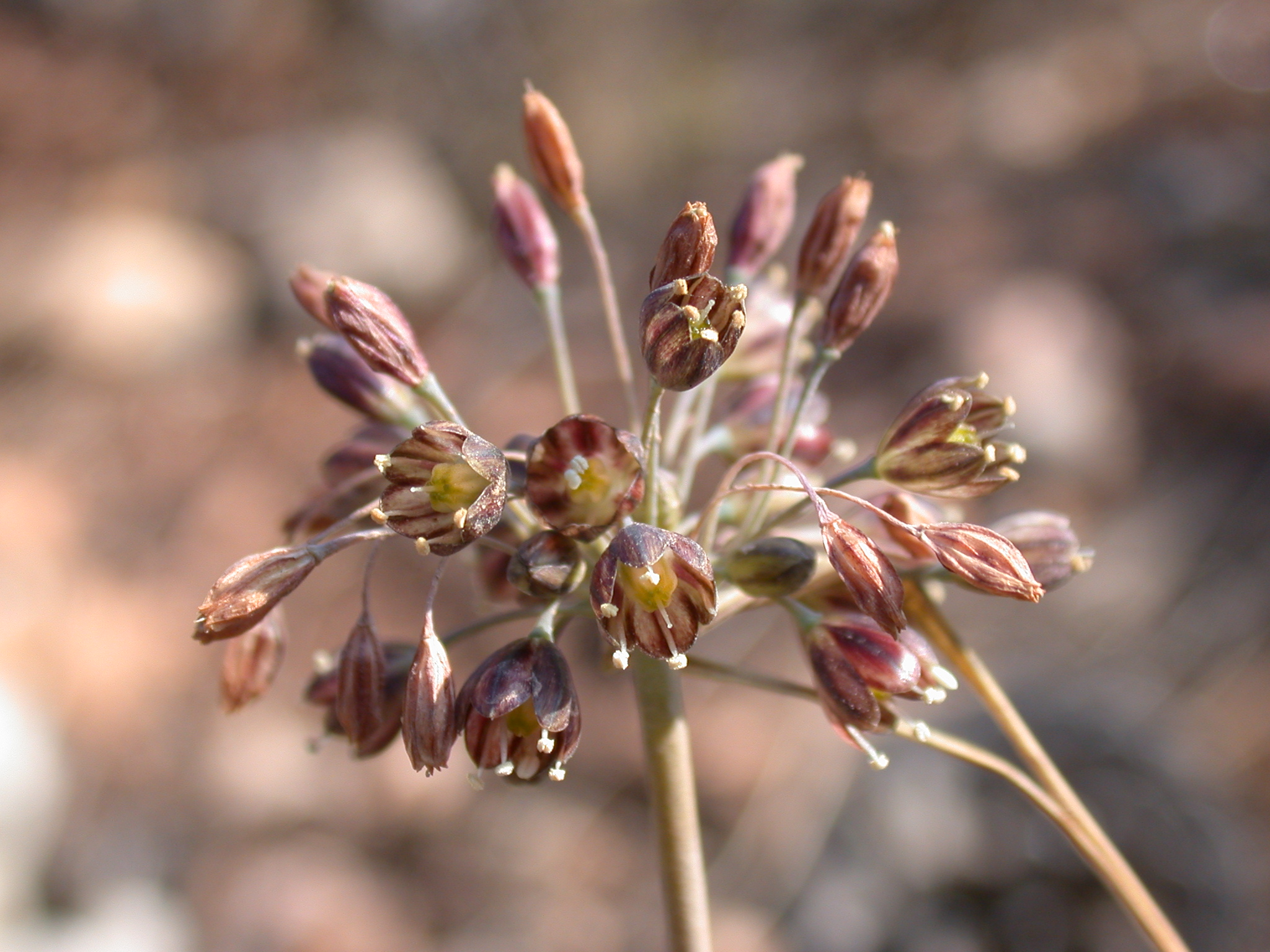 Allium tardiflorum Kollmann, Shmida & Cohen (שום סתווי), Mount Carmel, Israel, October 2006.